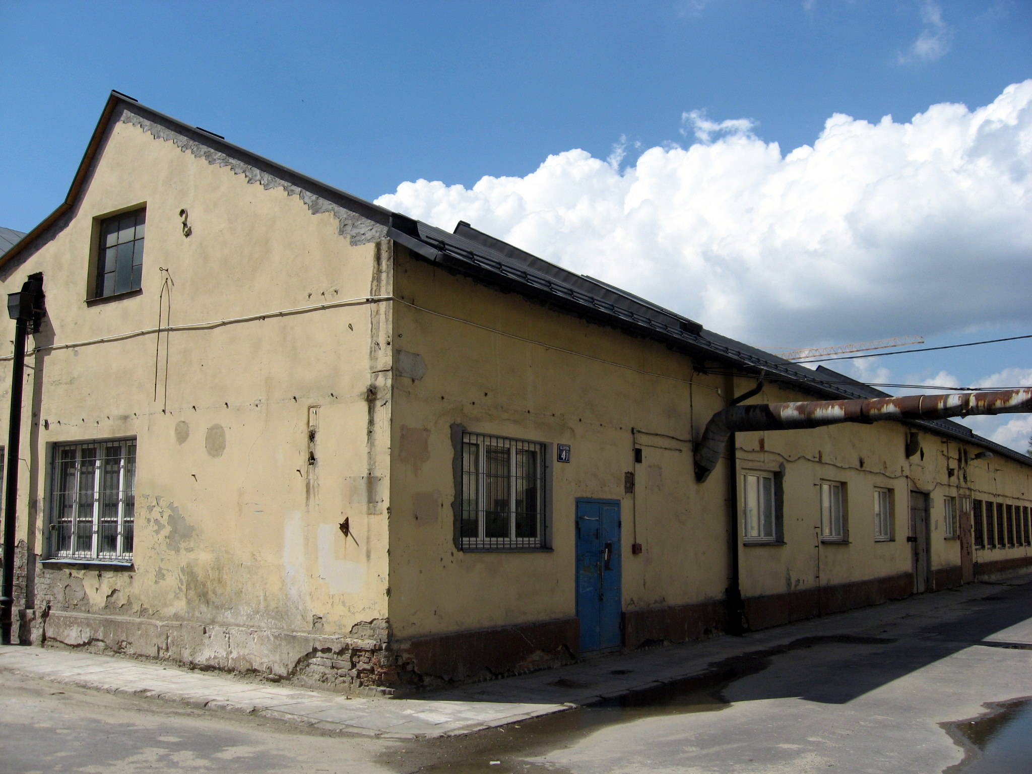 Oscar Schindler's enamel factory in Krakow